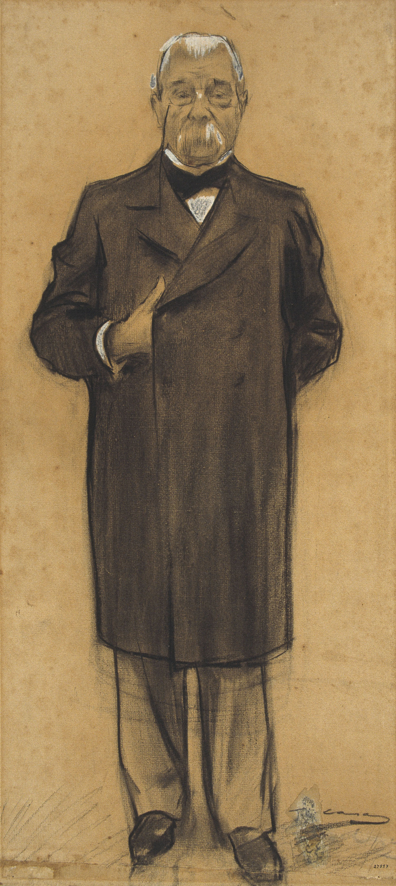 Portrait by Ramon Casas conserved at MNAC in Barcelona. Imagen 053